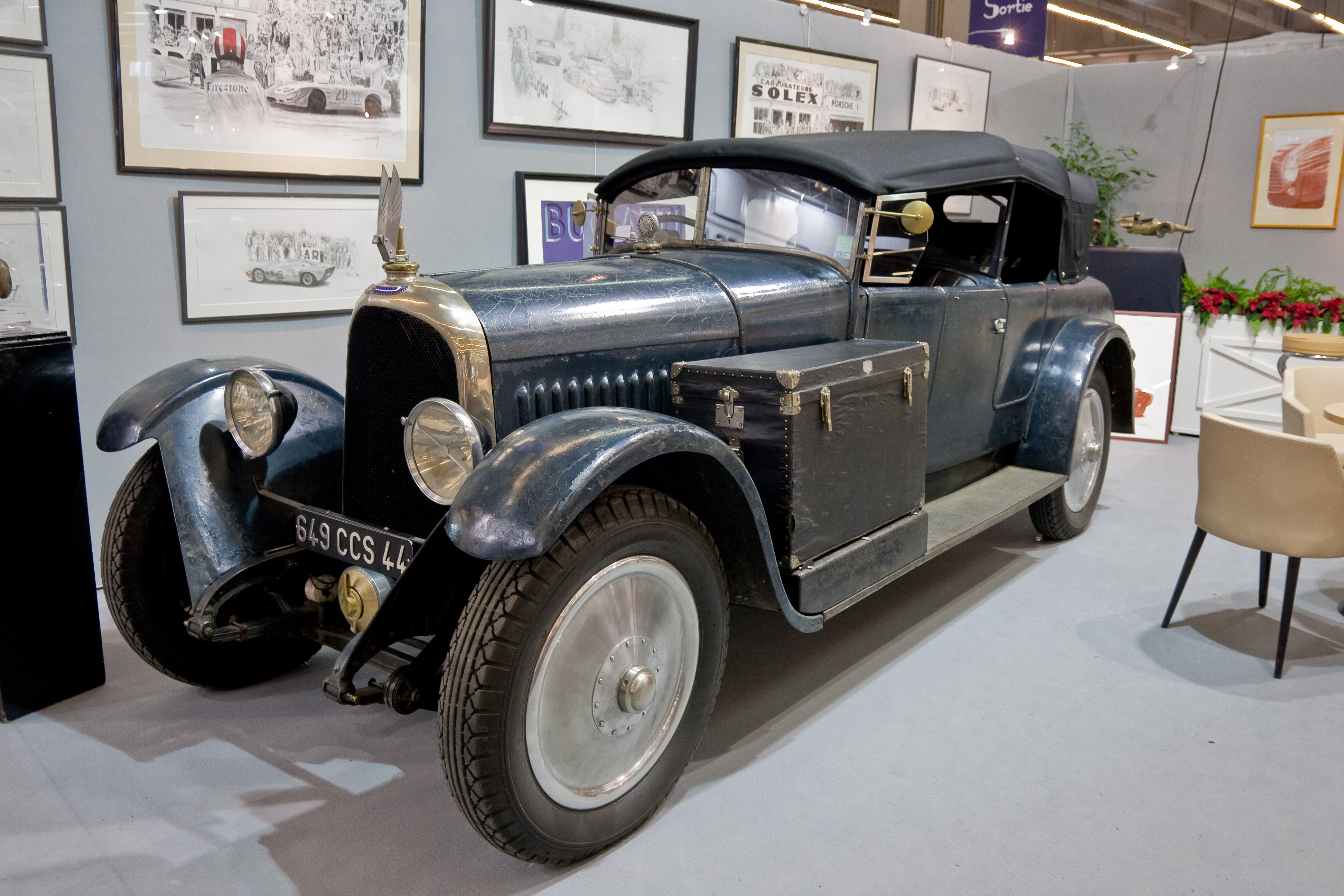 Avion Voisin C11 (1927) with a special coachwork done for the TECALEMIT company owner (unique piece).